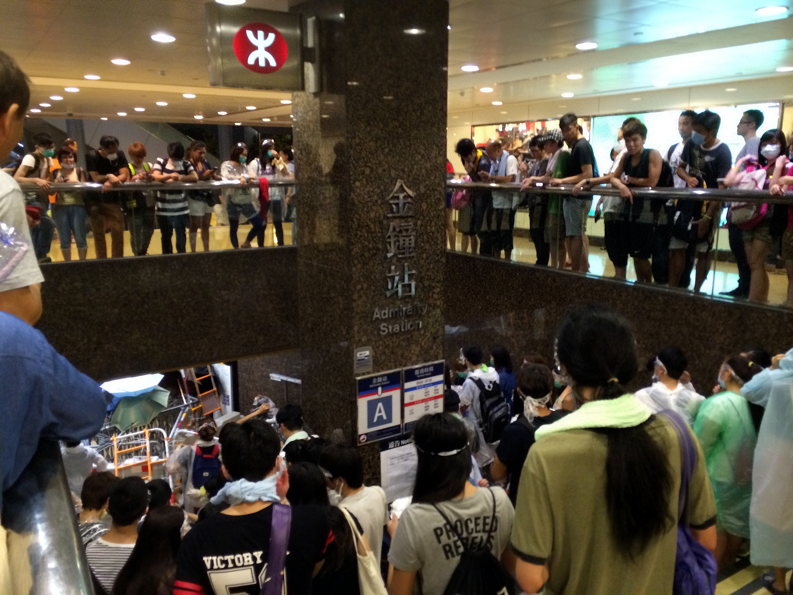 Protesters Block Admiralty MTR Exit A in Umbrella Revolution